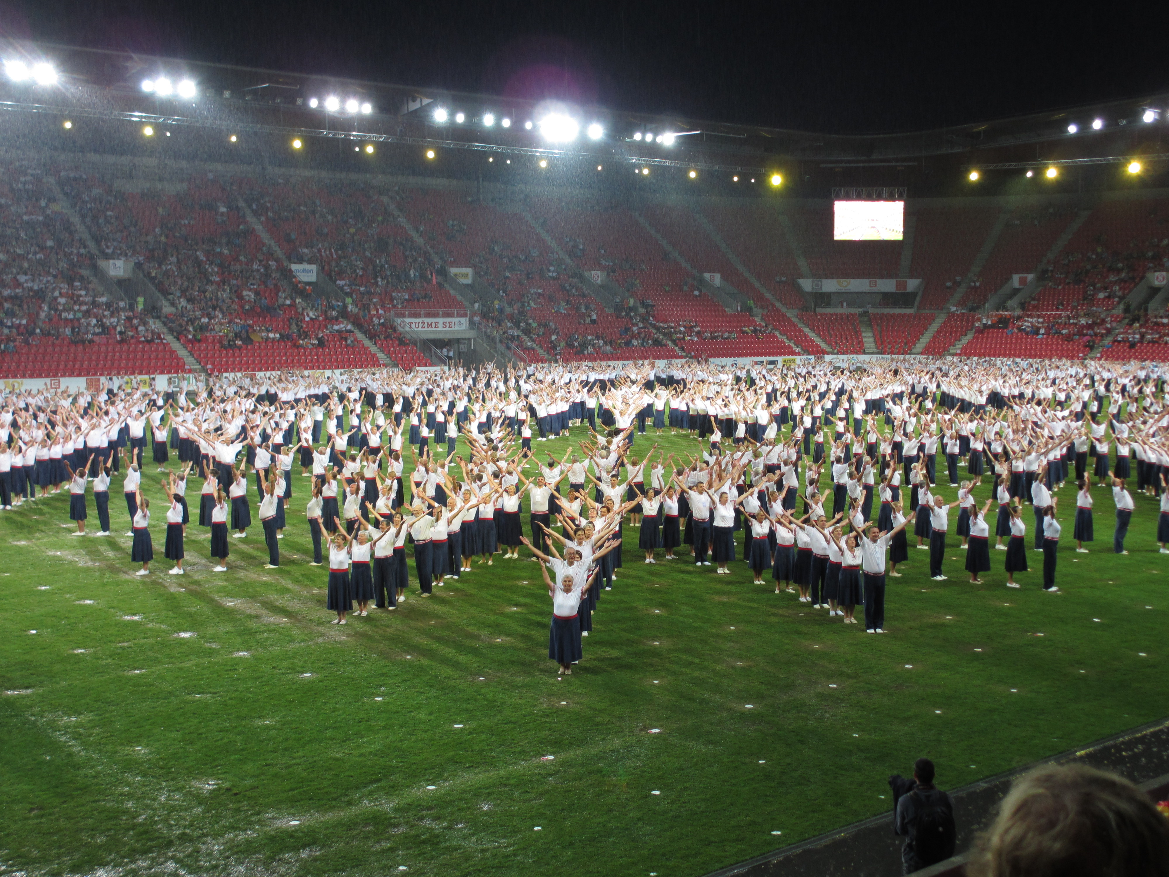 Gathering of Czech sport club Sokol called "XV. sokolský slet", Stadion Eden (called in 2012 Synot Tip Arena), Prague, Czech Republic